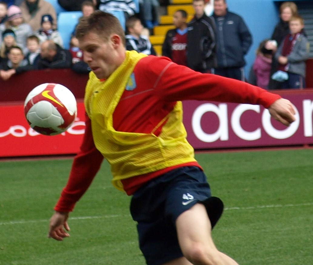 James Milner in training at Villa Park. 占士米拿在阿士東維拉